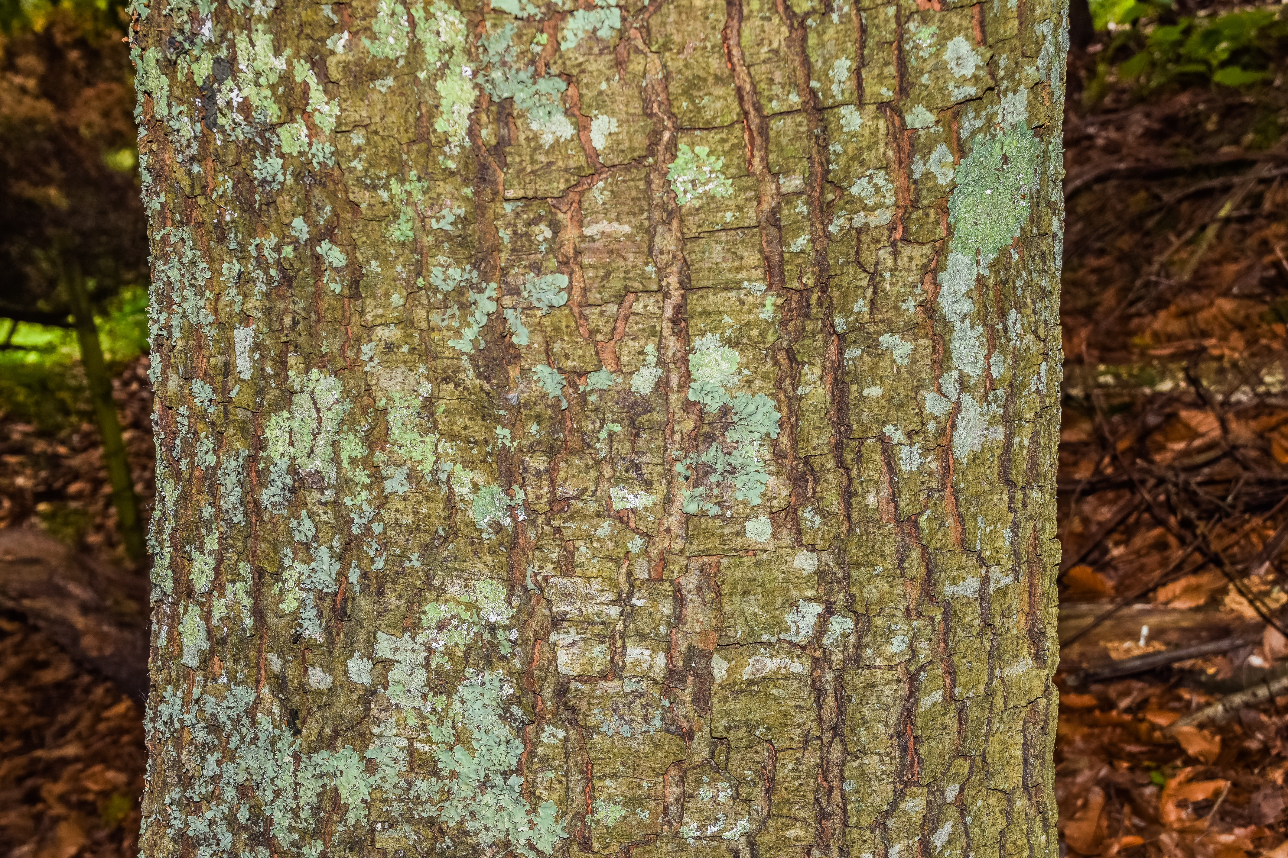 Quercus xalapensis in Hackfalls Arboretum, Gisborne Region, New Zealand